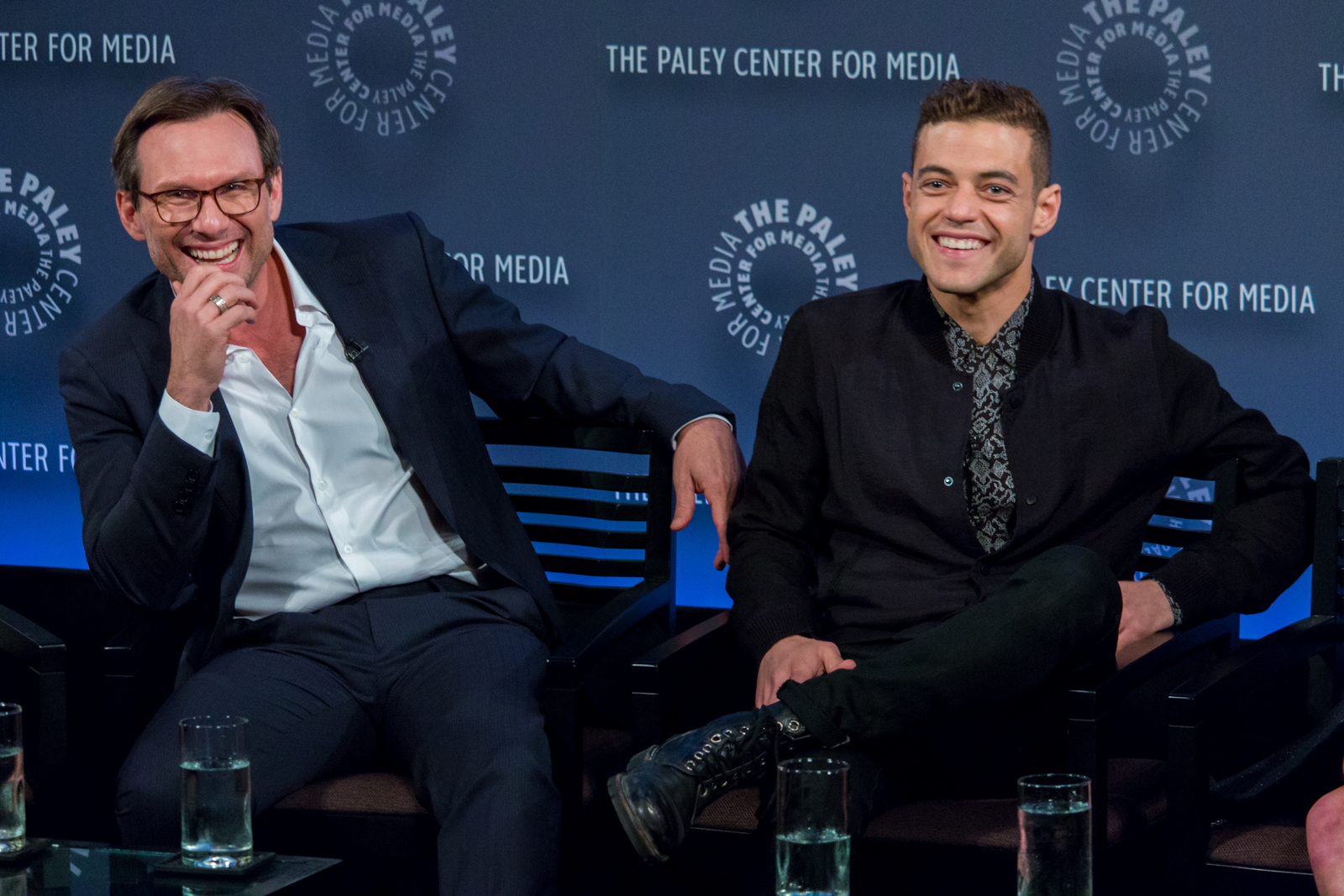 Christian Slater & Rami Malek at the PaleyFest, New York in 2015